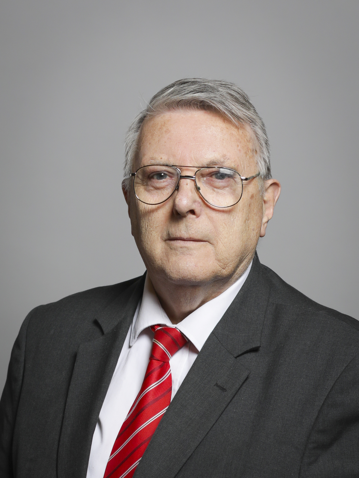 Official portrait of Lord McAvoy 3×4 portrait of Lord McAvoy